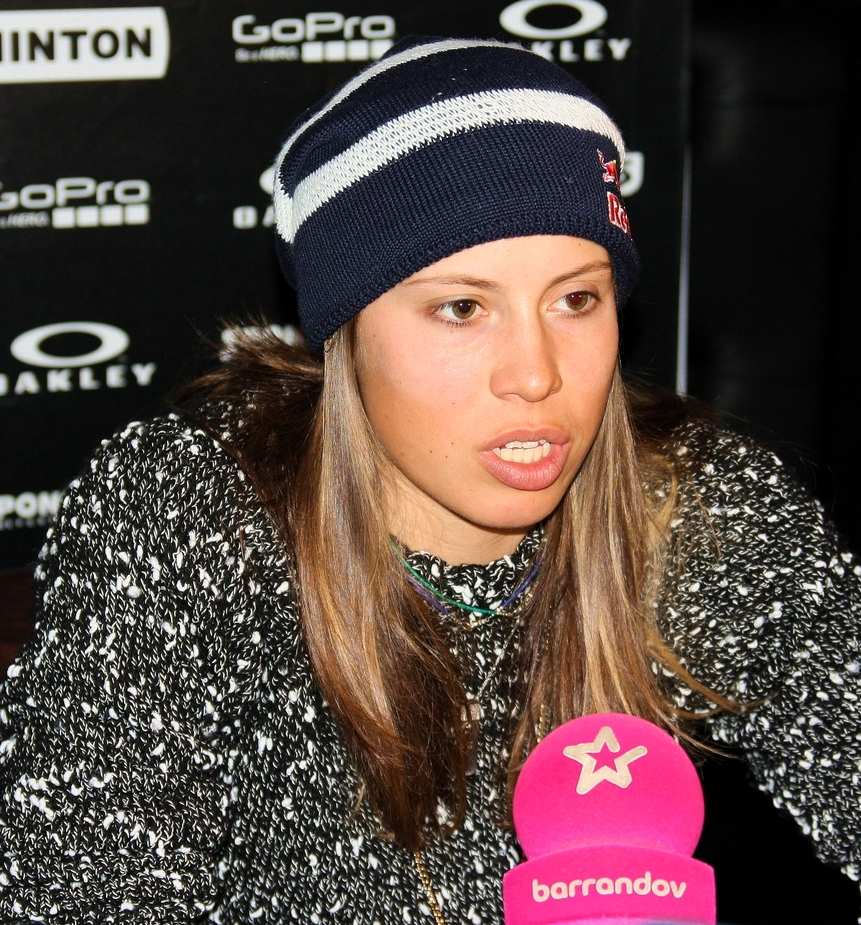 Czech snowboarder Eva Samková.